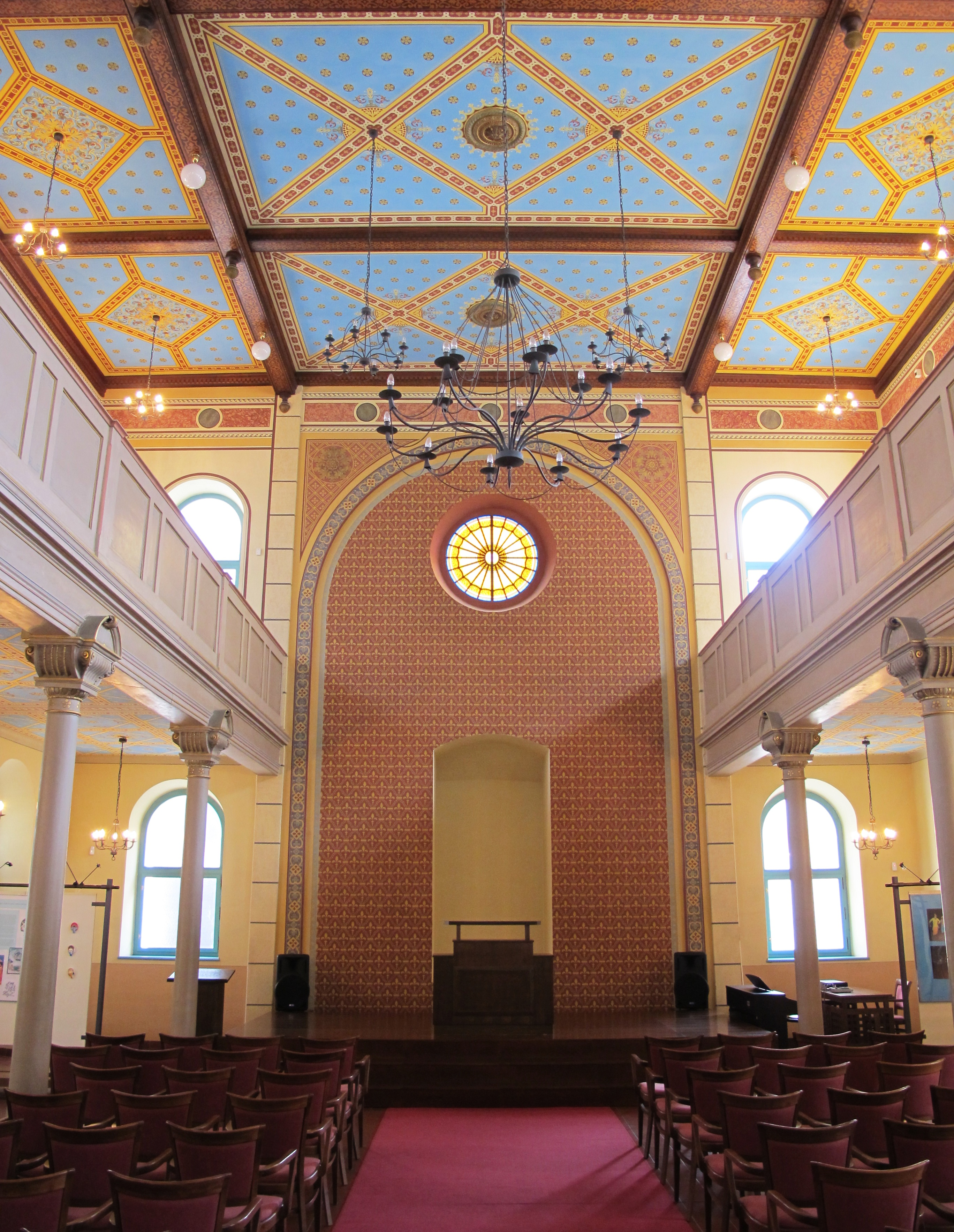 Former synagogue in now completely reconstructed and it is used for cultural and social purposes